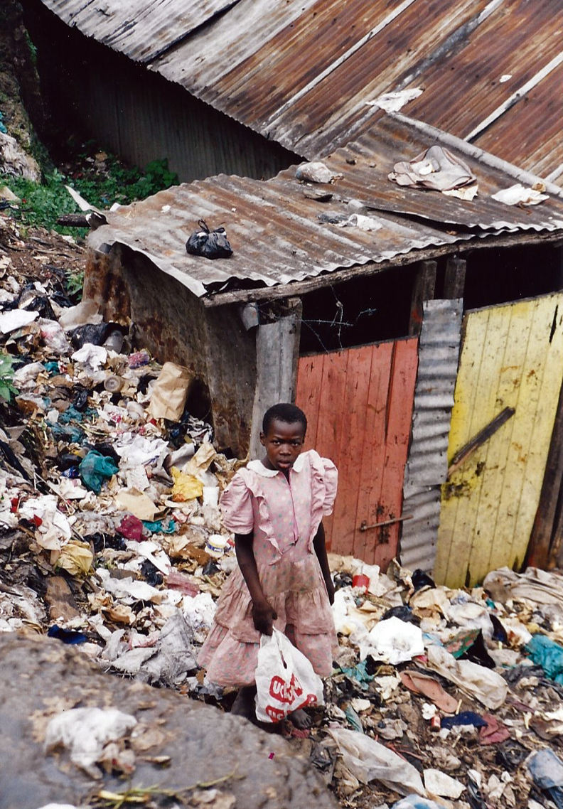 In this photograph by Michael E. Arth, this African boy appears to be so poor that he would rather wear a dress than go naked. He is standing amidst a sea of "flying toilets" (excrement and urine filed shopping bags) next to two derelict latrines. It is appears that he is recycling some of the bags.